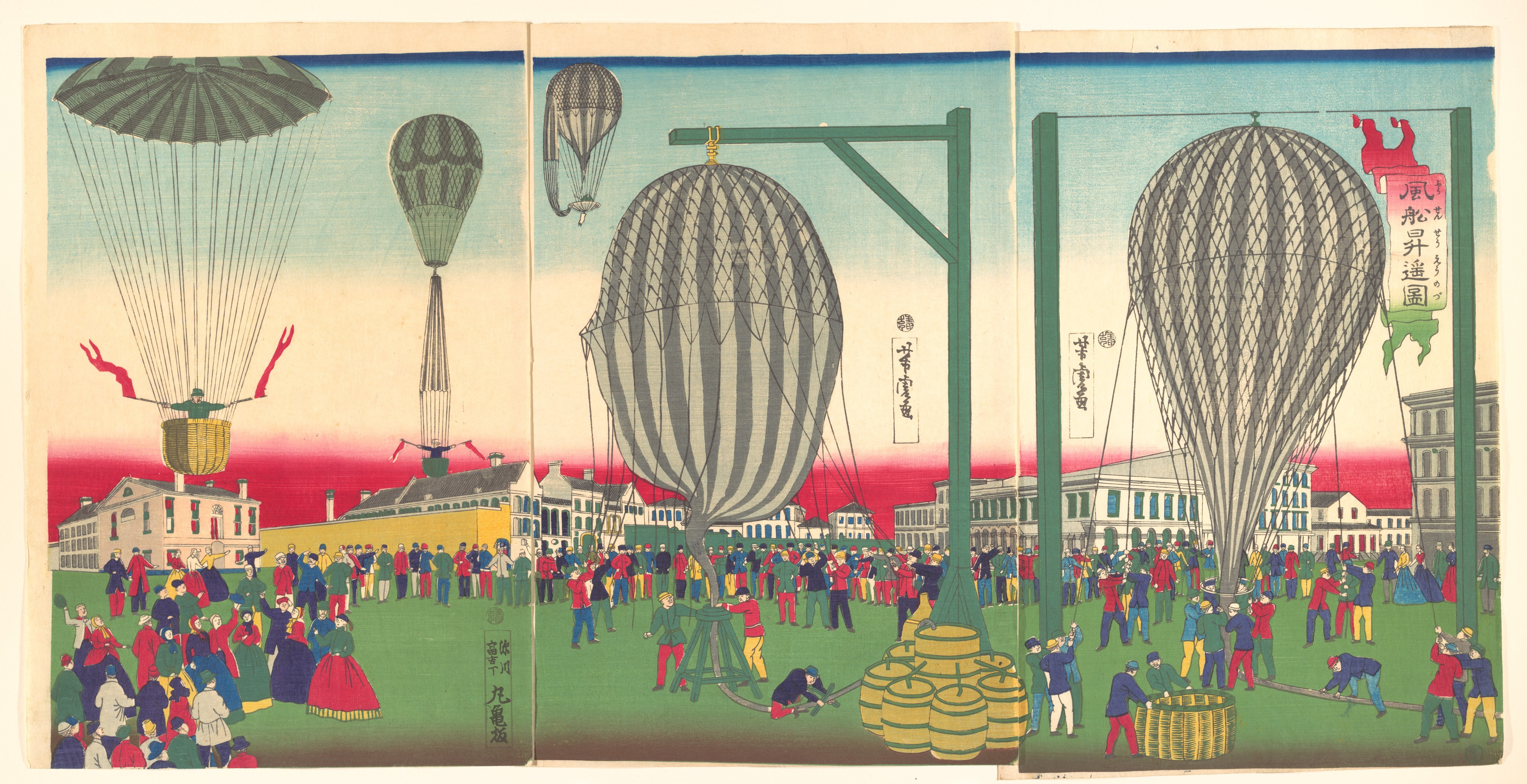 Illustration of a Balloon Ascending